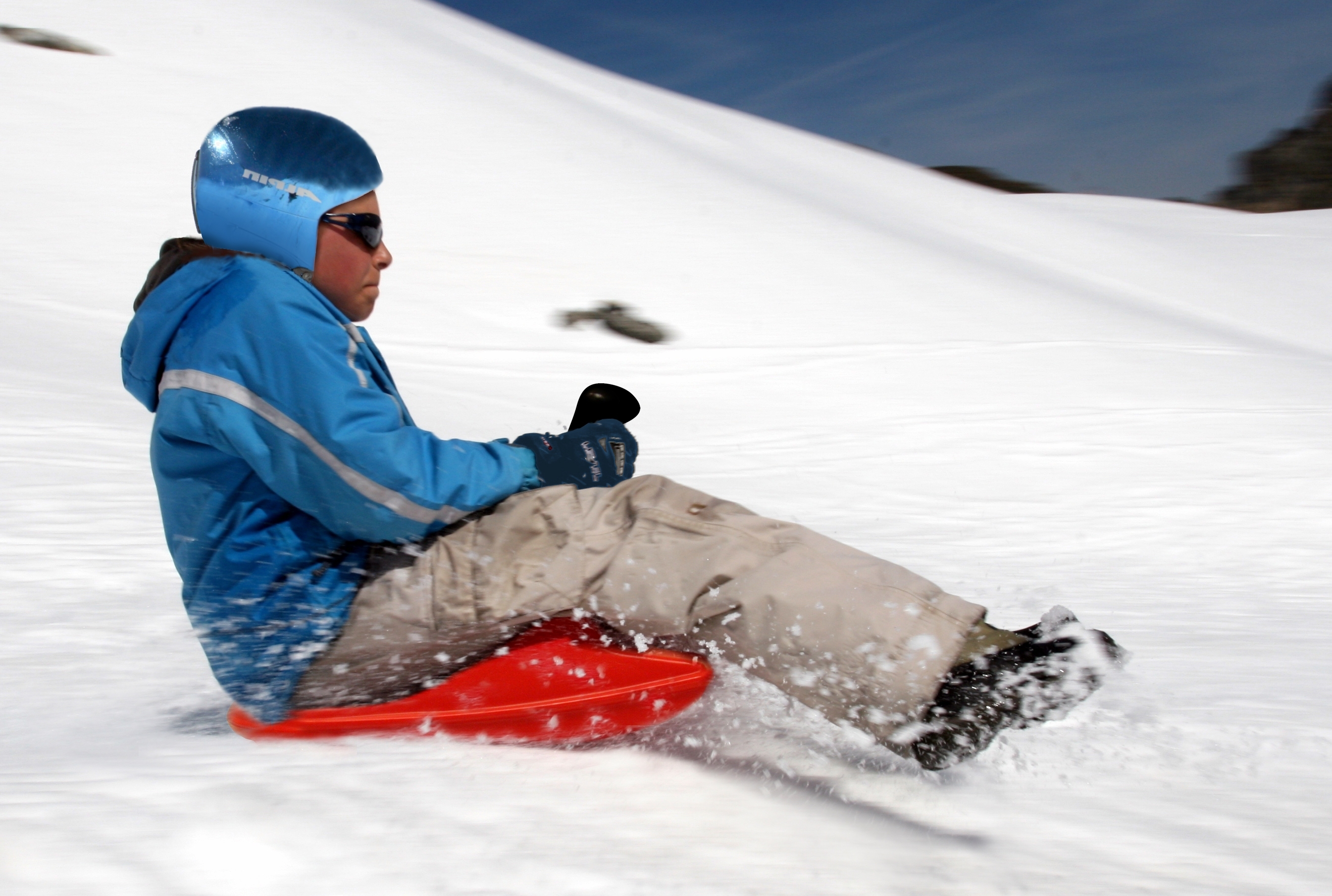 Riding a Zipflbob